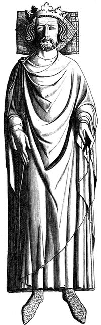 Effigy of Henry III. from his tomb in Westminster Abbey